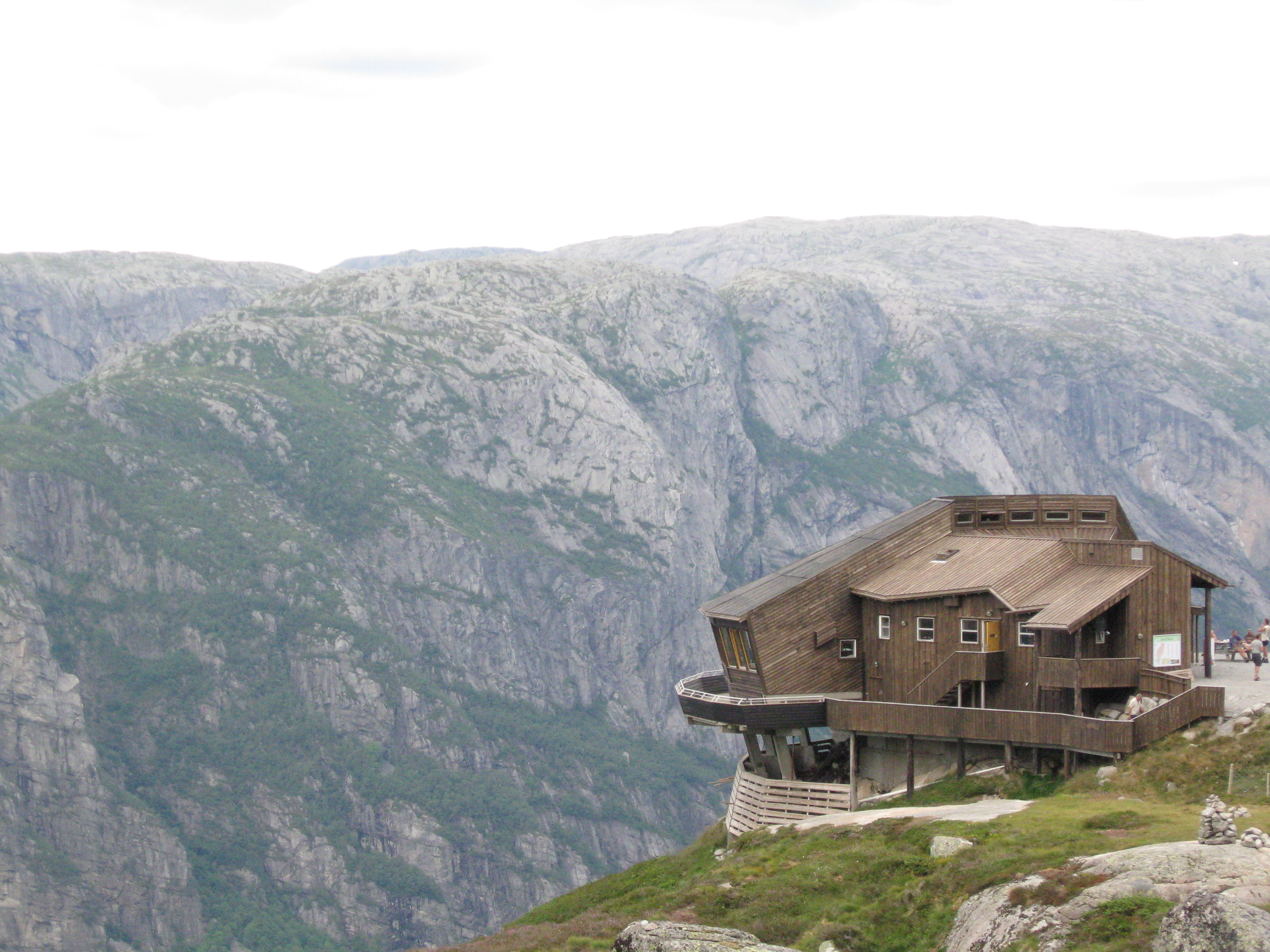 Øygardsstølen. Restaurant at the parking near Kjerag. (Lysefjorden, Norway)